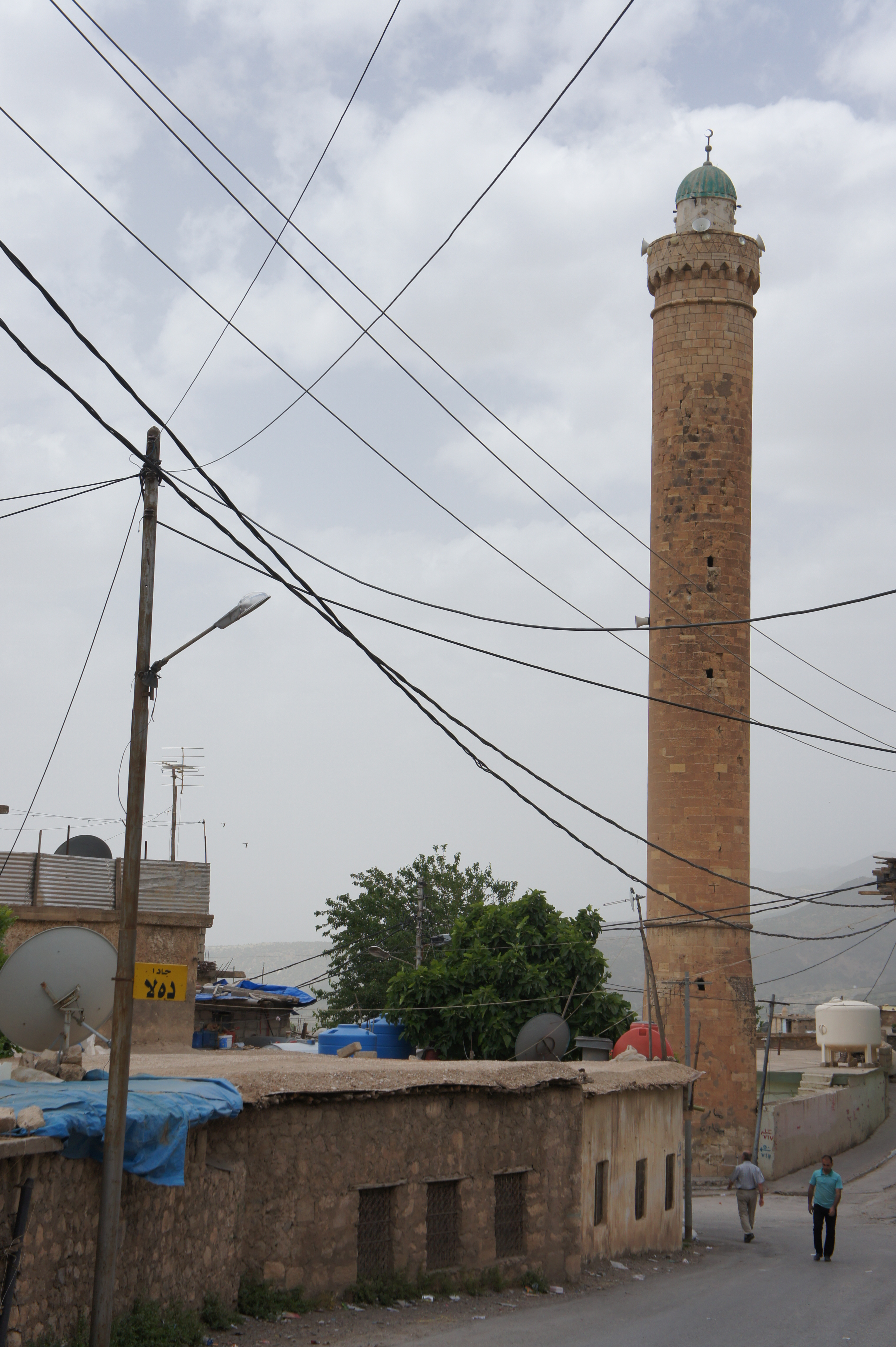 Minaret of the Amadiya mosque, Amadiya, Iraqi Kuristan, Iraq, 2012. Kurdî: Minareya Mizgefta Amêdiyê, 2012.